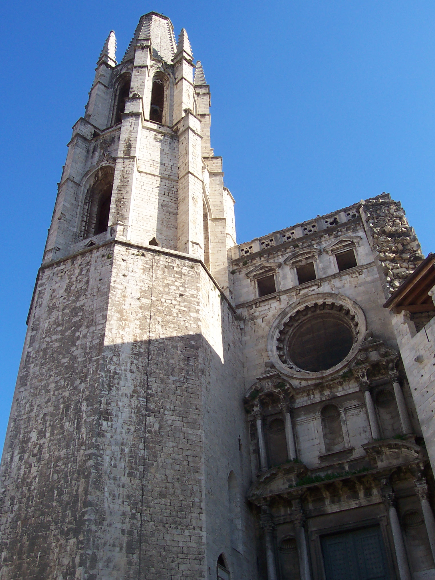 Sant Feliu Church, Girona, Catalonia, Spain.